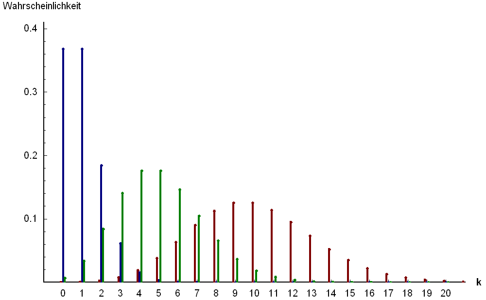 Poisson Distribution